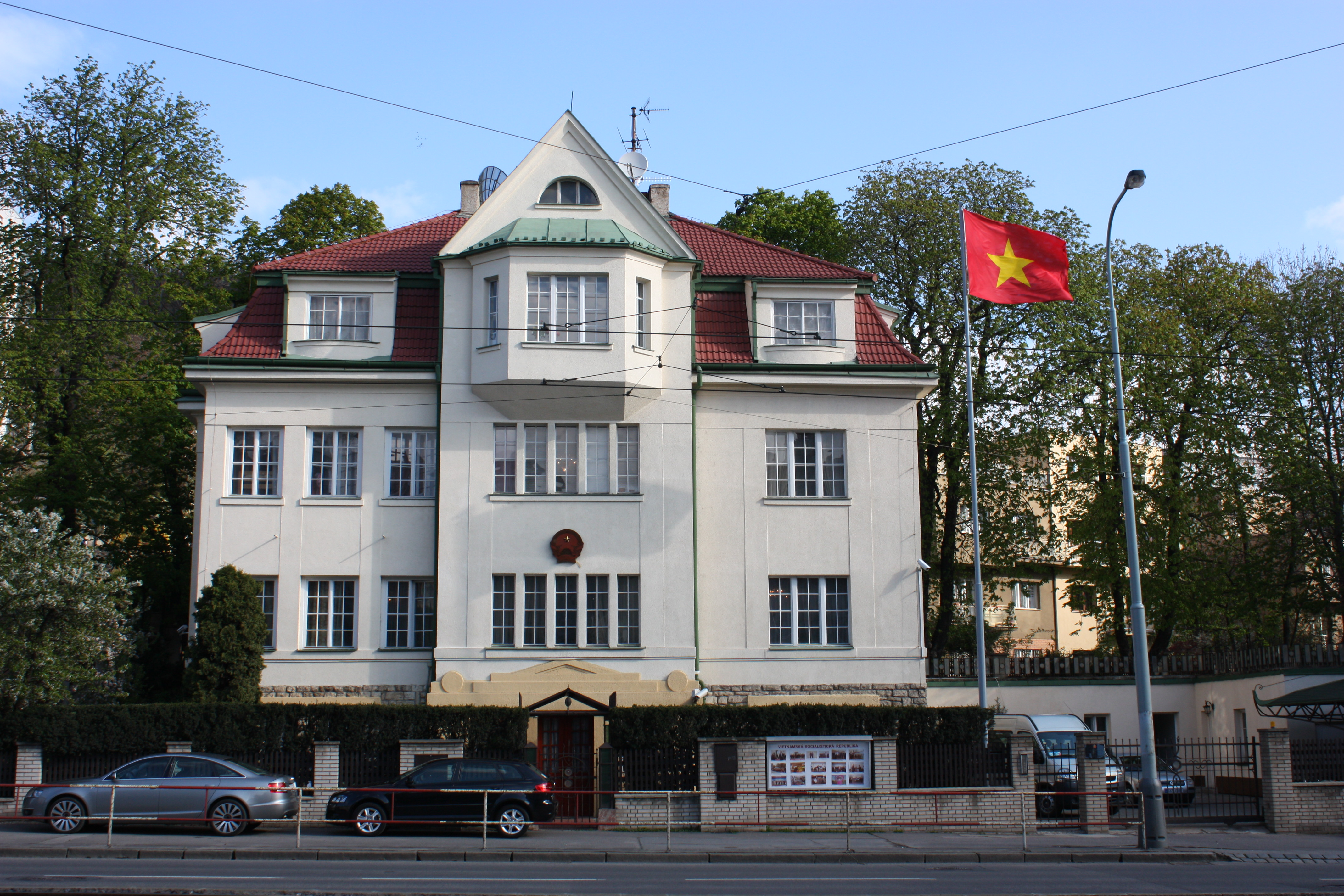 Vietnamese Embassy in Prague 5-Smíchov, Plzeňská 2578/214.